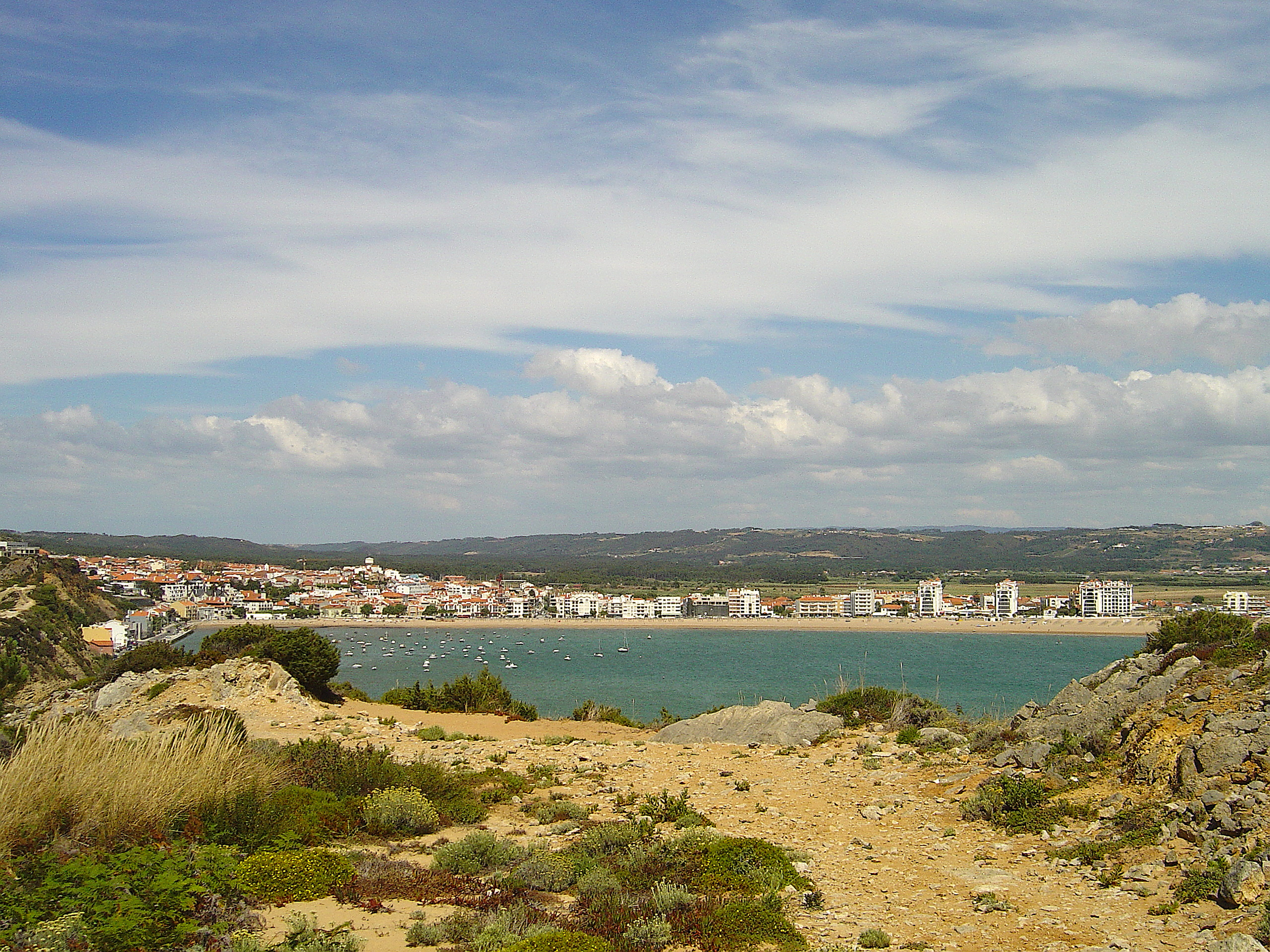 See where this picture was taken. [?]